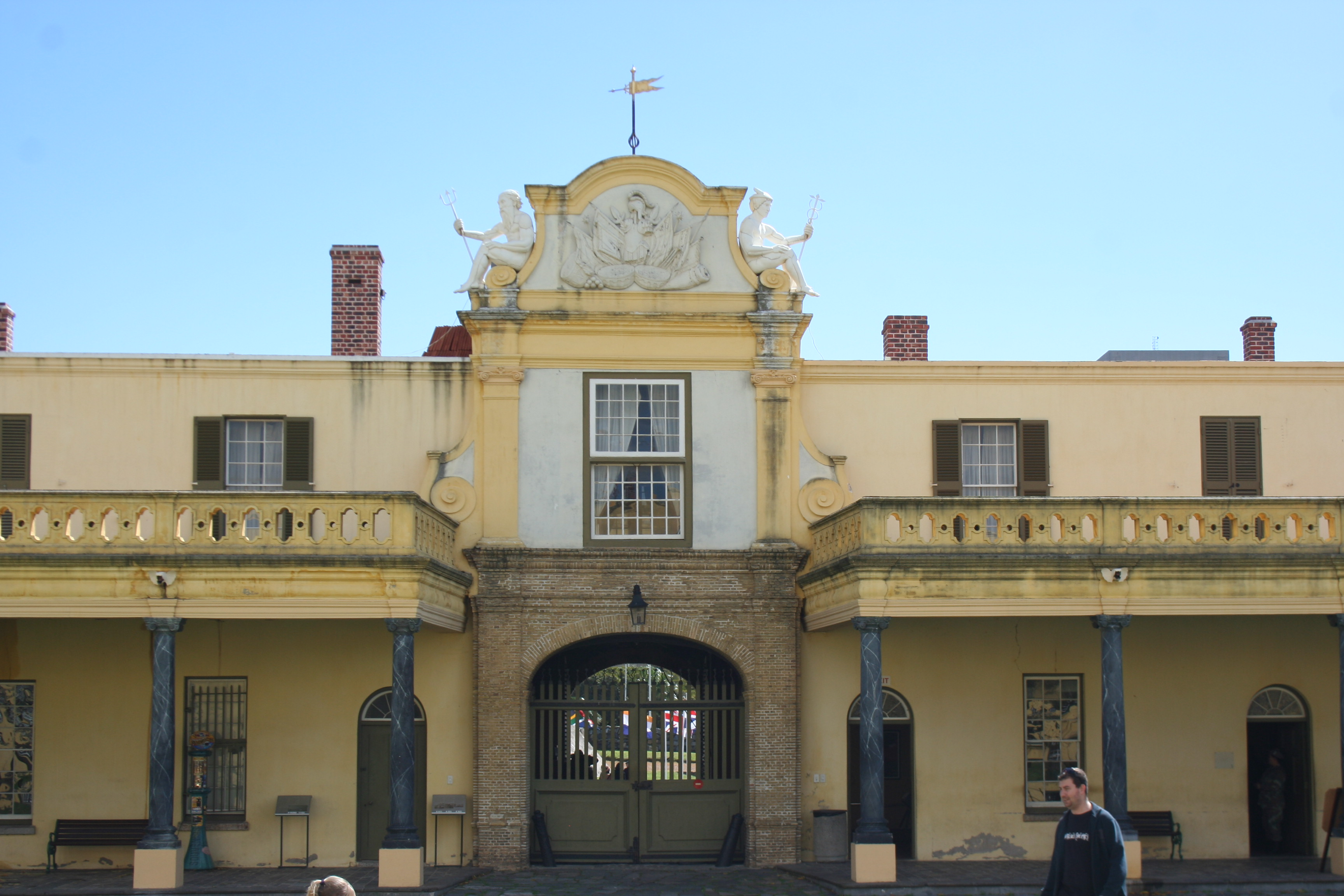 The Castle of Good Hope, Cape Town This media shows a South African Protected Site with SAHRA file reference 9/2/018/0056.